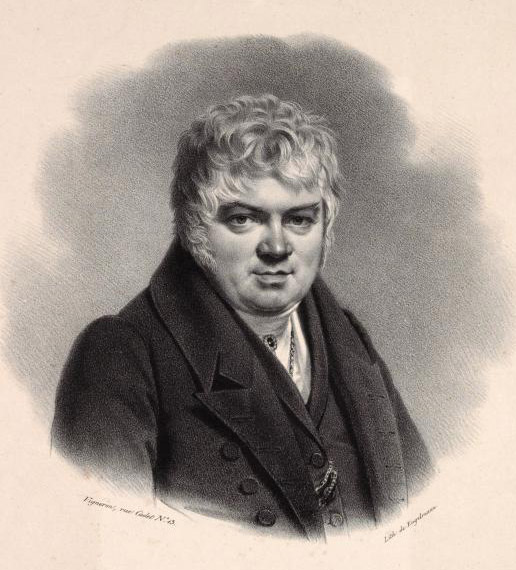 Portrait of Austrian composer Hieronymus Payer (1787—1845)